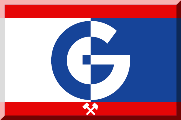 Górnik Zabrze fantasy flag